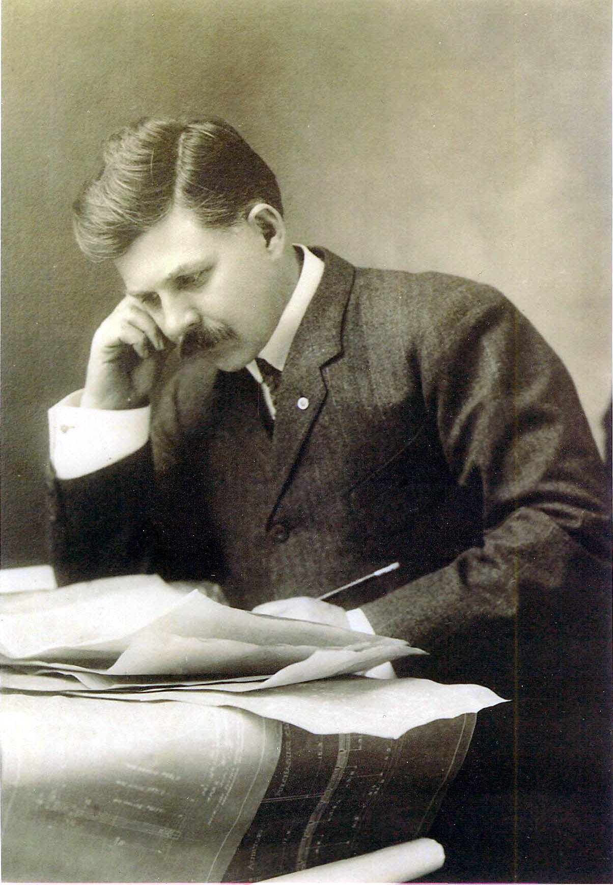 Photography of Ransom E. Olds, founder of Oldsmobile, at age of 37.